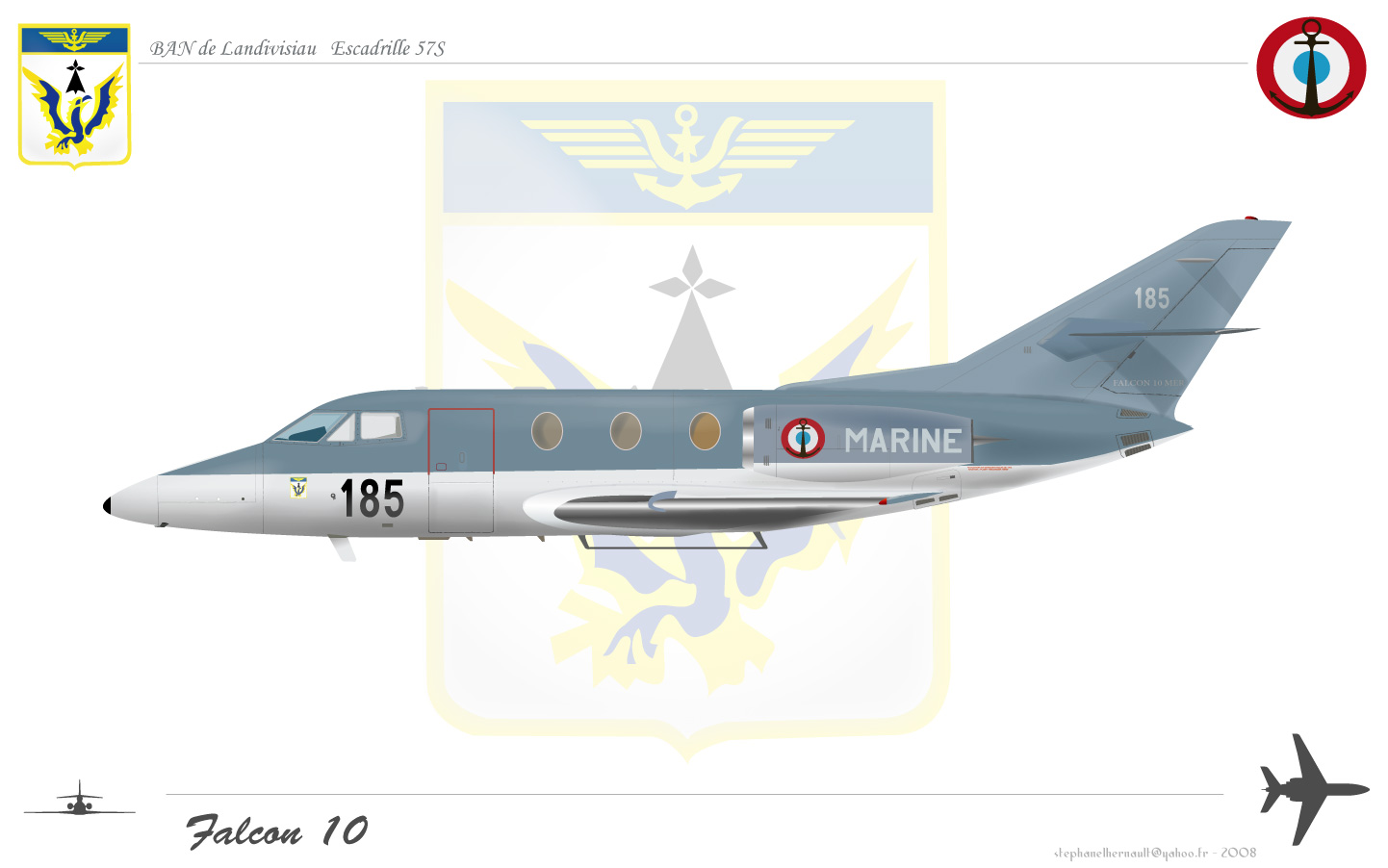 French Marine Falcon 10 escadrille 57S